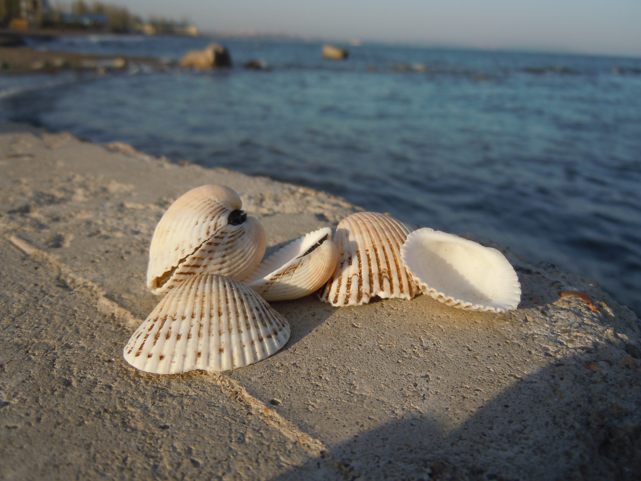 Unequal arc (Anadara kagoshimensis) from the Black Sea, Gulf of Odessa